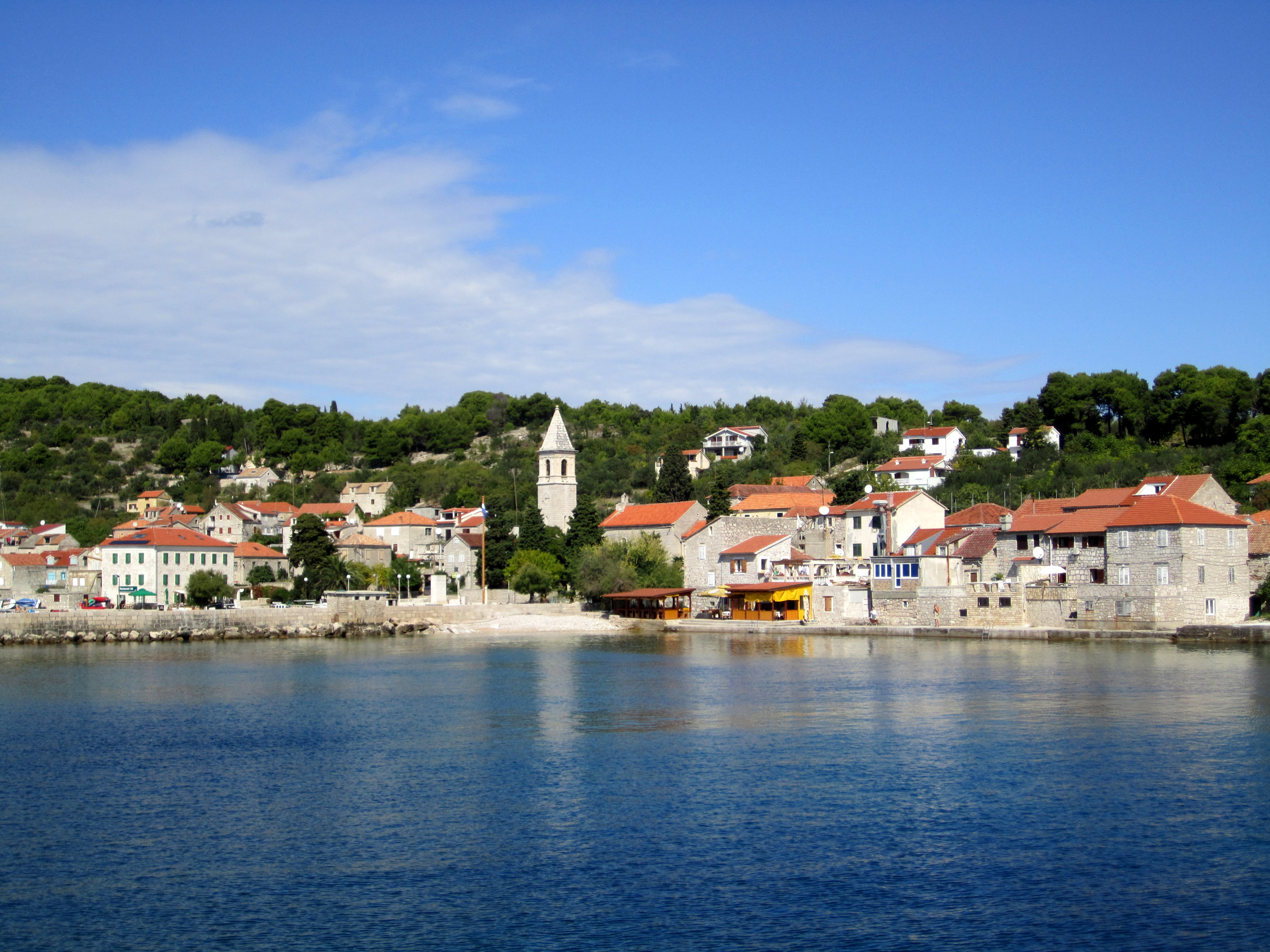 Prvic Luka. Island of Prvic. Croatia, near Sibenik